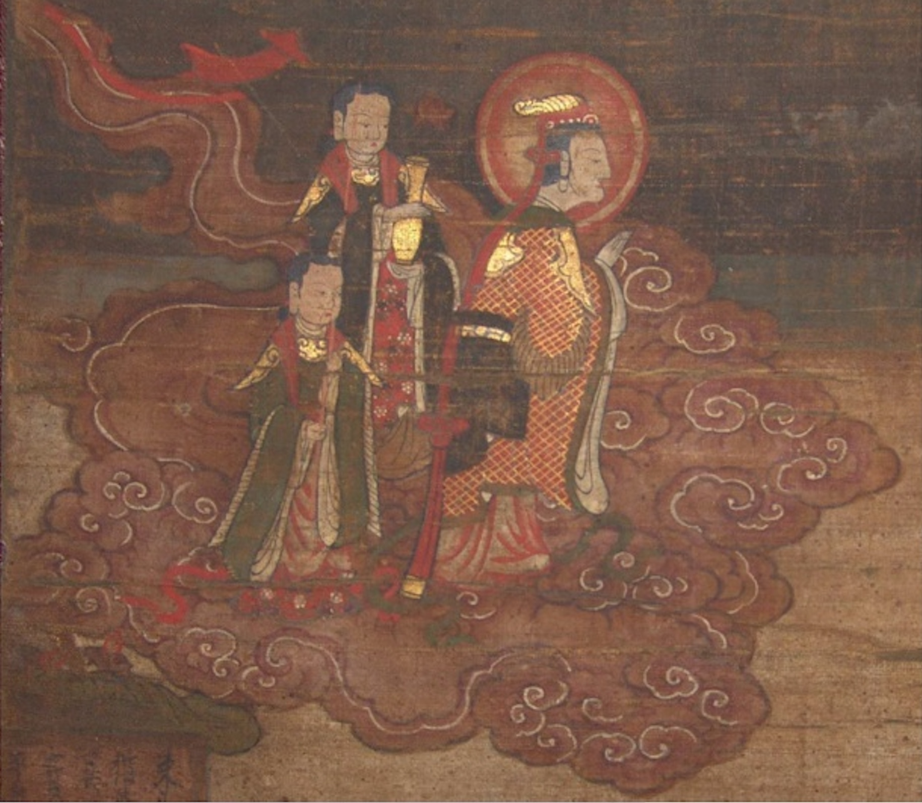 Daênâ (or Light Maiden) with her attendants, detail of the Sermon on Mani’s Teaching of Salvation, Yüen dynasty.